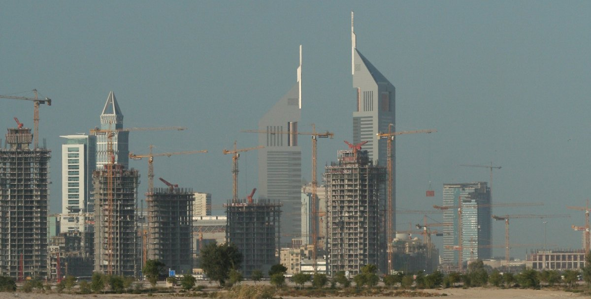 Construction in Dubai. This is housing going up near Sheikh Zayed road, the financial/business capital of Dubai.